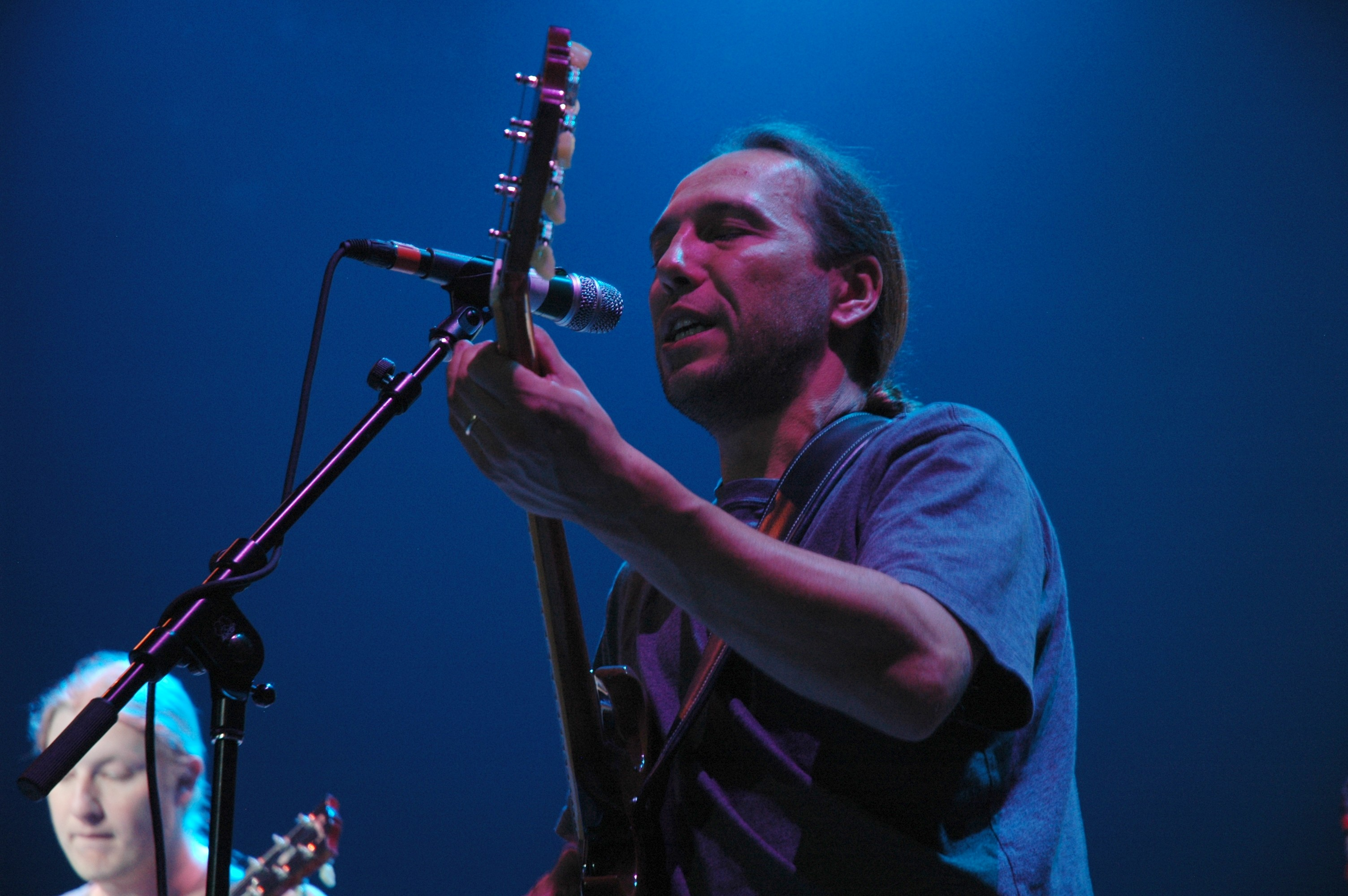 Taken at the Hard Rock Cafe, Hollywood, FL on May 6, 2008.